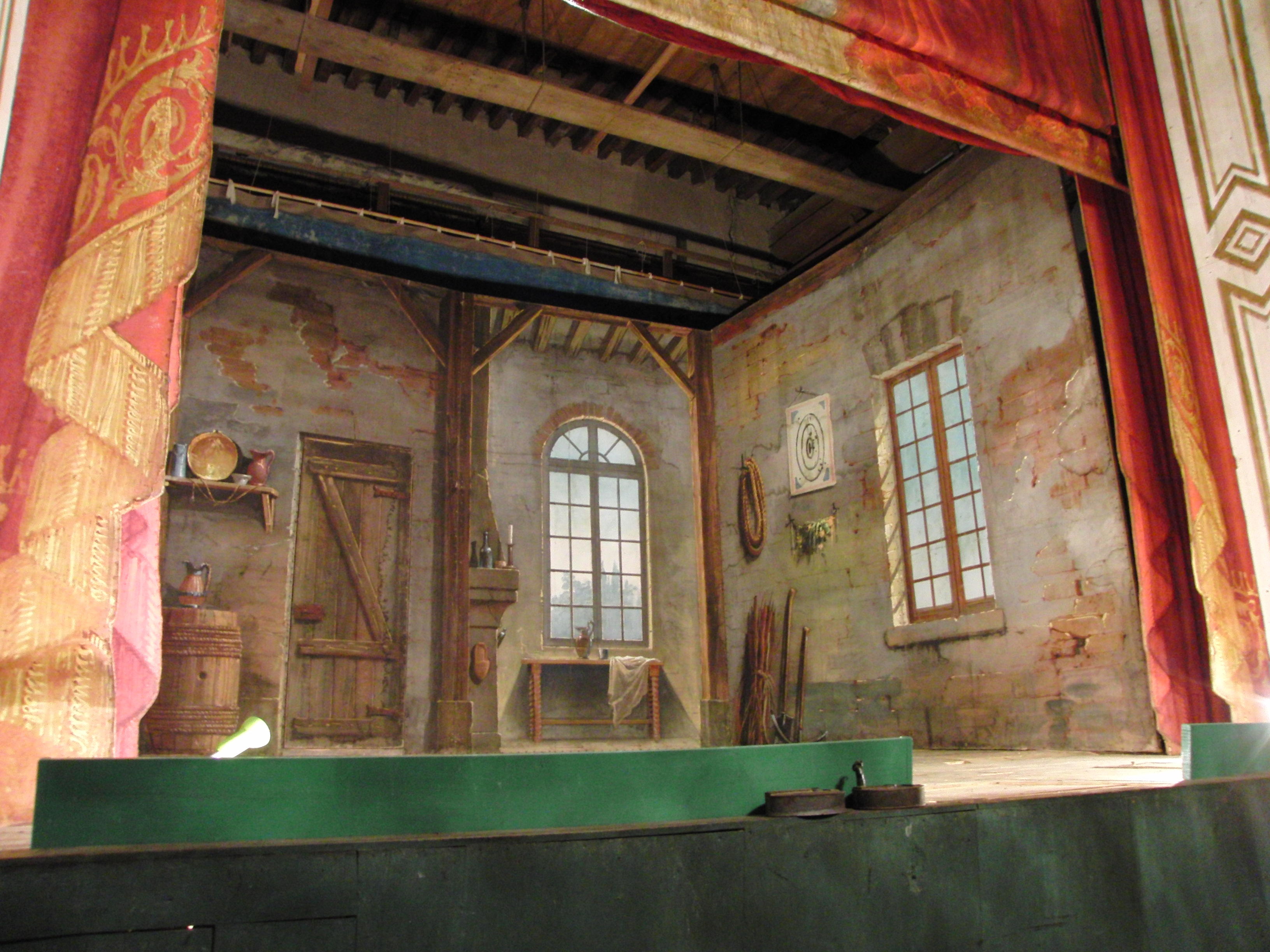 Castle of Digoine's theater, Palinges, Saône-et-Loire, France